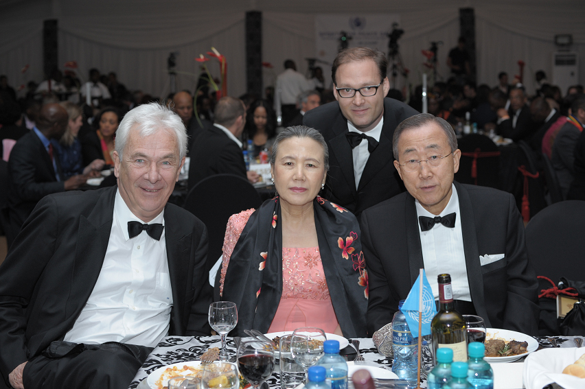 UN Secretary General Mr. Ban Ki-moon, Mrs. Ban, Peter Krämer and Jaka Bizilj at the Sports for Peace Gala 2010 in Johannesburg